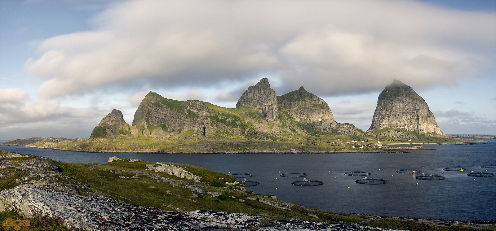 View to Sanna from Husøya, Træna